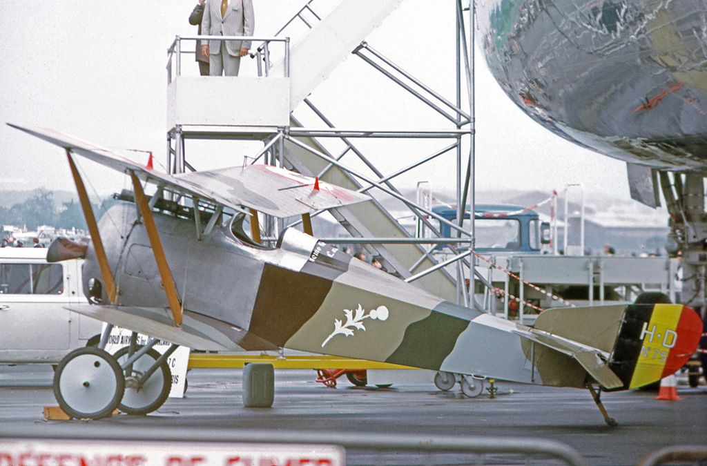 Hanriot HD-1 No. 75 displayed at the 1973 Paris Air Show at Le Bourget Airport, Paris